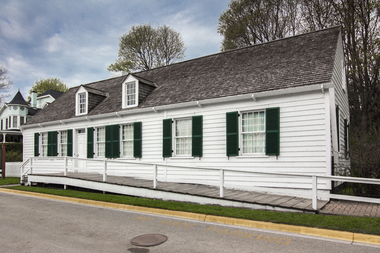 Biddle House - Mackinaw Island